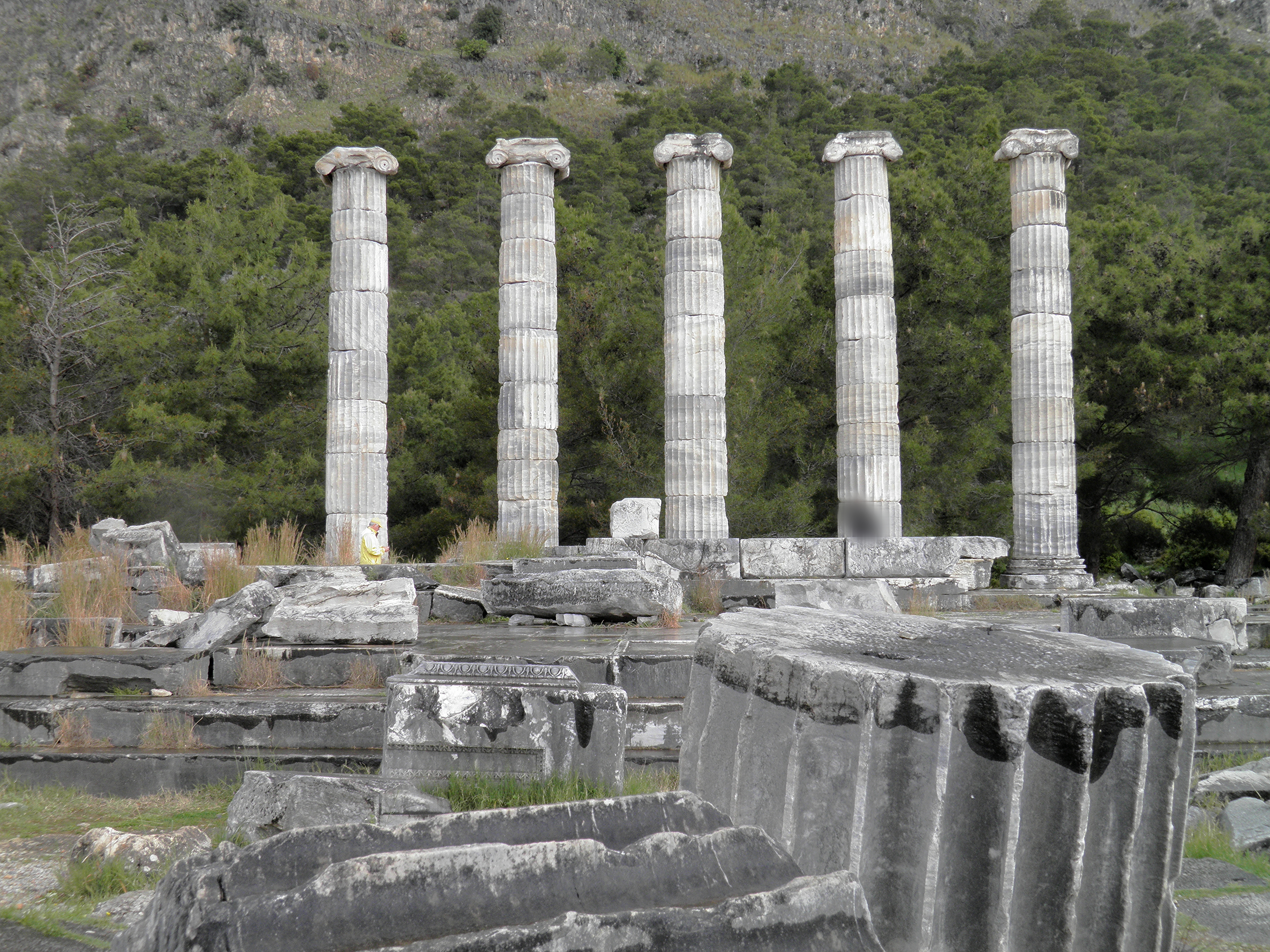 The Temple of Athena Polias, Priene, Turkey